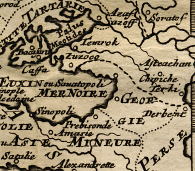 Detail from a map of Europe by Nicolas De Fer 1705